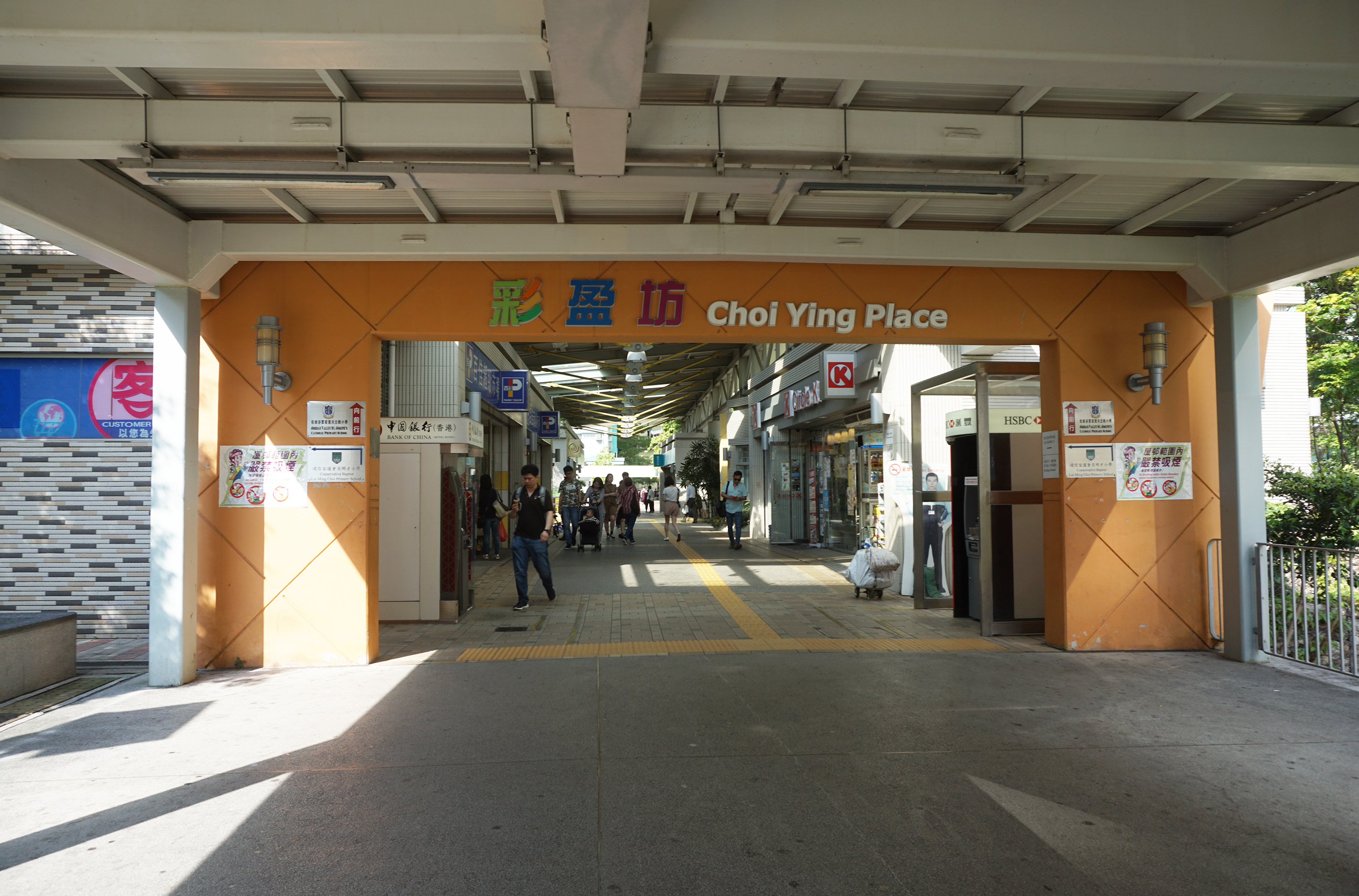 Choi Ying Place in Kowloon Bay, Hong Kong.